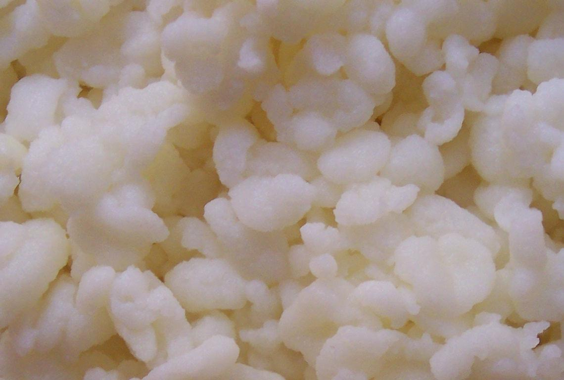 These are popular lacto bacterias to make yogurt I use at home. They are named in spanish "bacilos bulgaros" (bulgarian bacillus). I am not sure this bacteria is whose specific scientific named is "Lactobacillus_bulgaricus". Photo was taken with a digital conventional camera with simple "close-up", any other amplification was used.